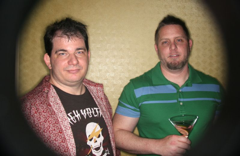 Dave Castlenuovo & Allen Dye from Creative Bolt